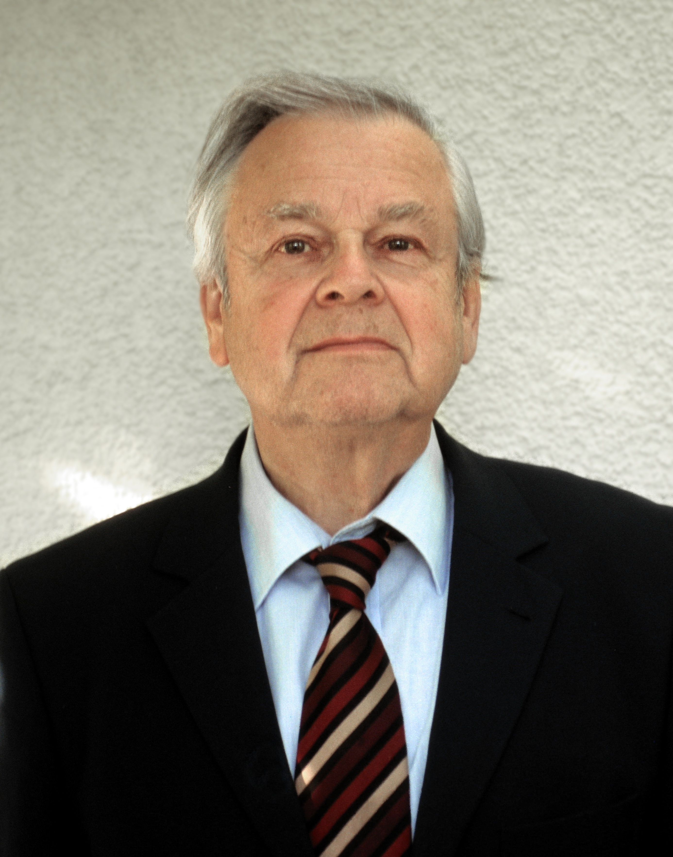 Volker Schurig (* 16. Februar 1940 in Dresden)